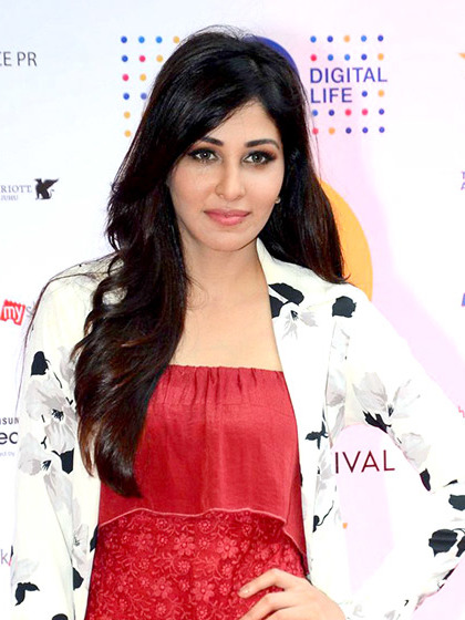 Chopra promoting short film ‘Ouch’ at MAMI 18th Mumbai Film Festival